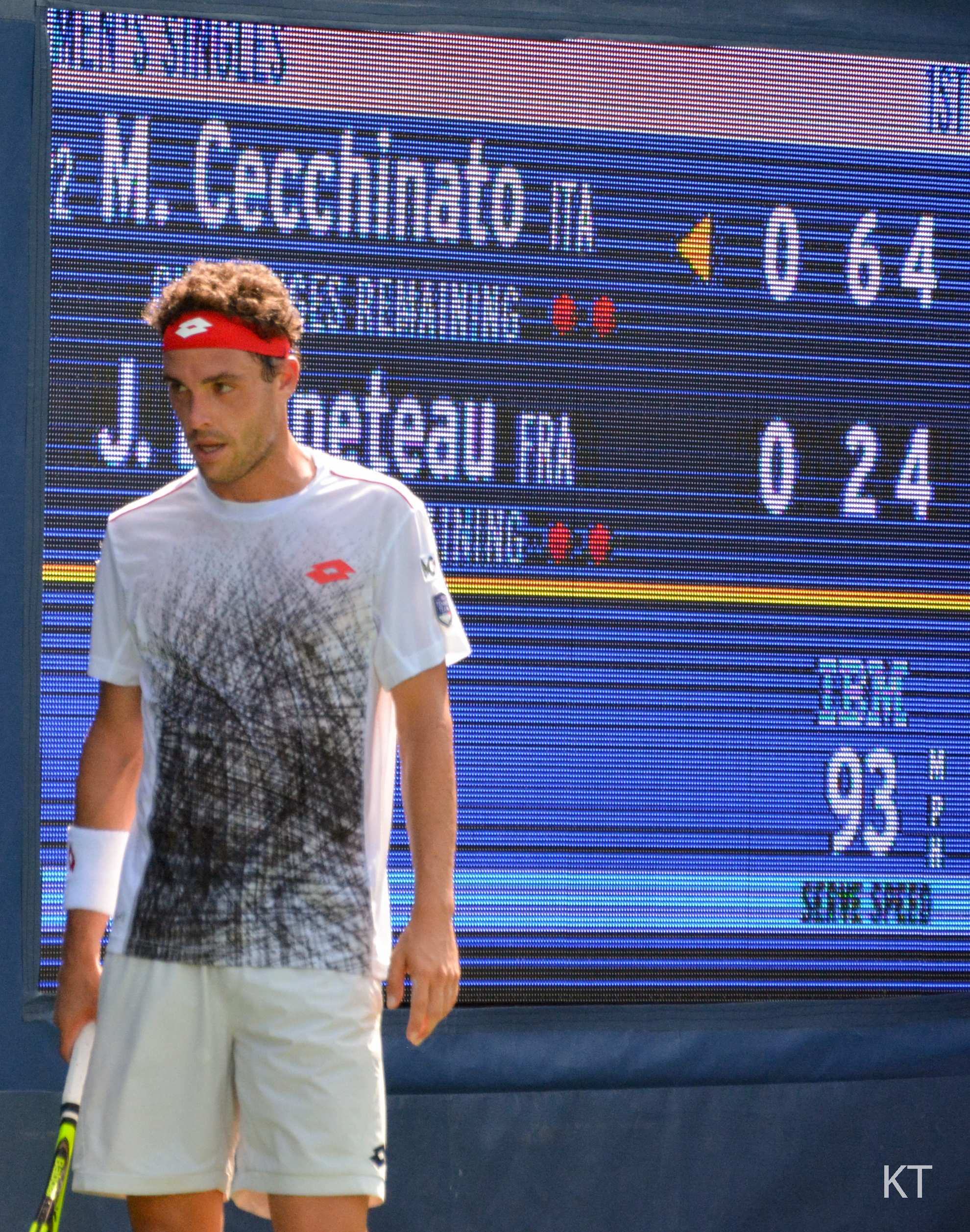 Marco Cecchinato v Julien Benneteau. Day 2 of US Open 2018.